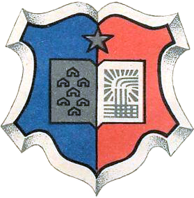 COA of Semipalatinsk 1967